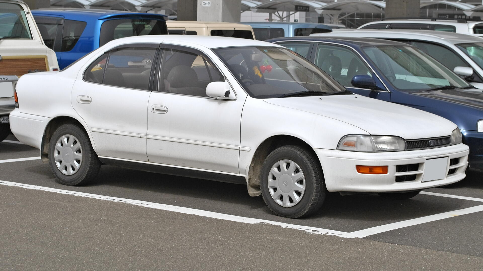 Toyota Sprinter SE-Limited sedan, E100-series